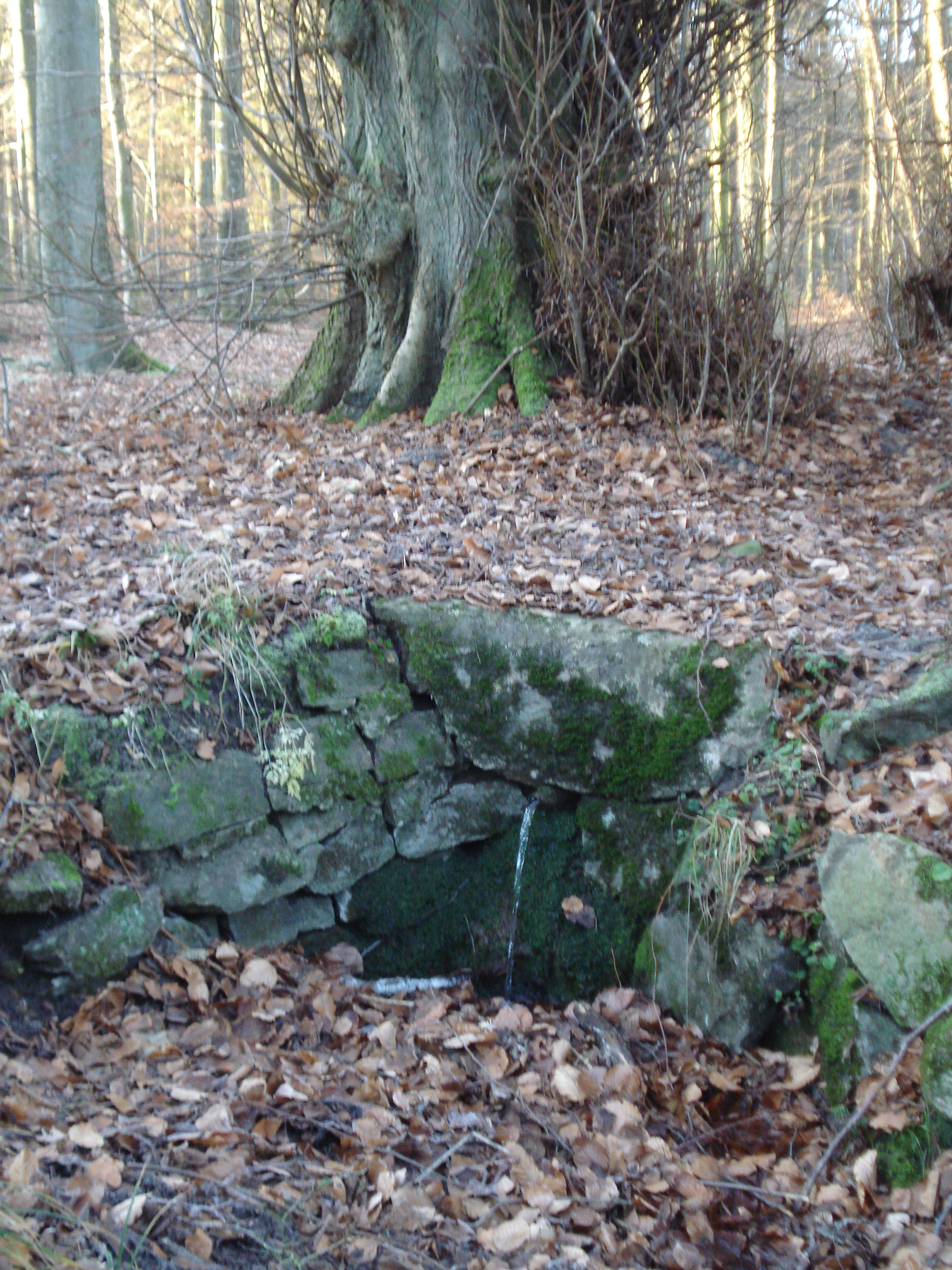 The water spring Ivarskilde in Rosenholm Skov (Forest), Jutland, Denmark